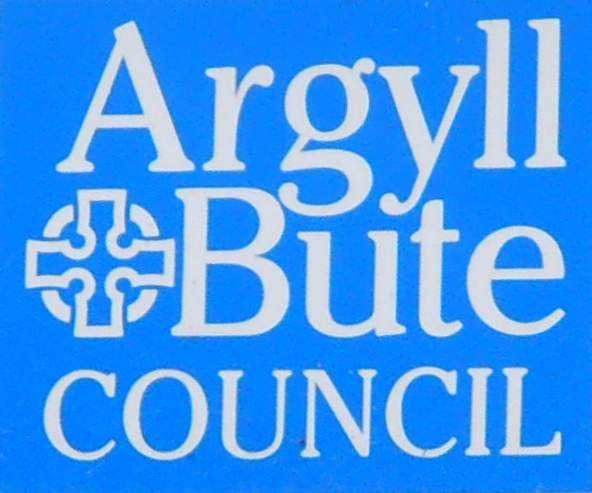 Logo of the Argyll and Bute council